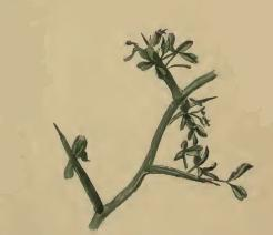 Stainton’s Natural History of the Tineina (1855–1873): Agonopterix atomella a sprig of Calycotome spinosa attacked by larva